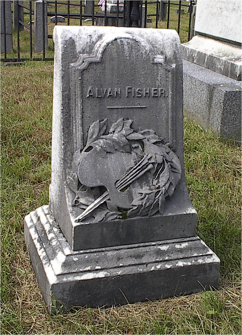 Photo of Fisher's headstone Dedham, Mass.